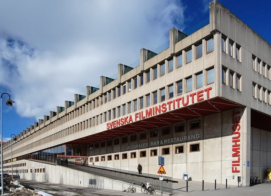 Svenska Filminstitutet/Filmhuset, Borgvägen 1, Östermalm, Stockholm.